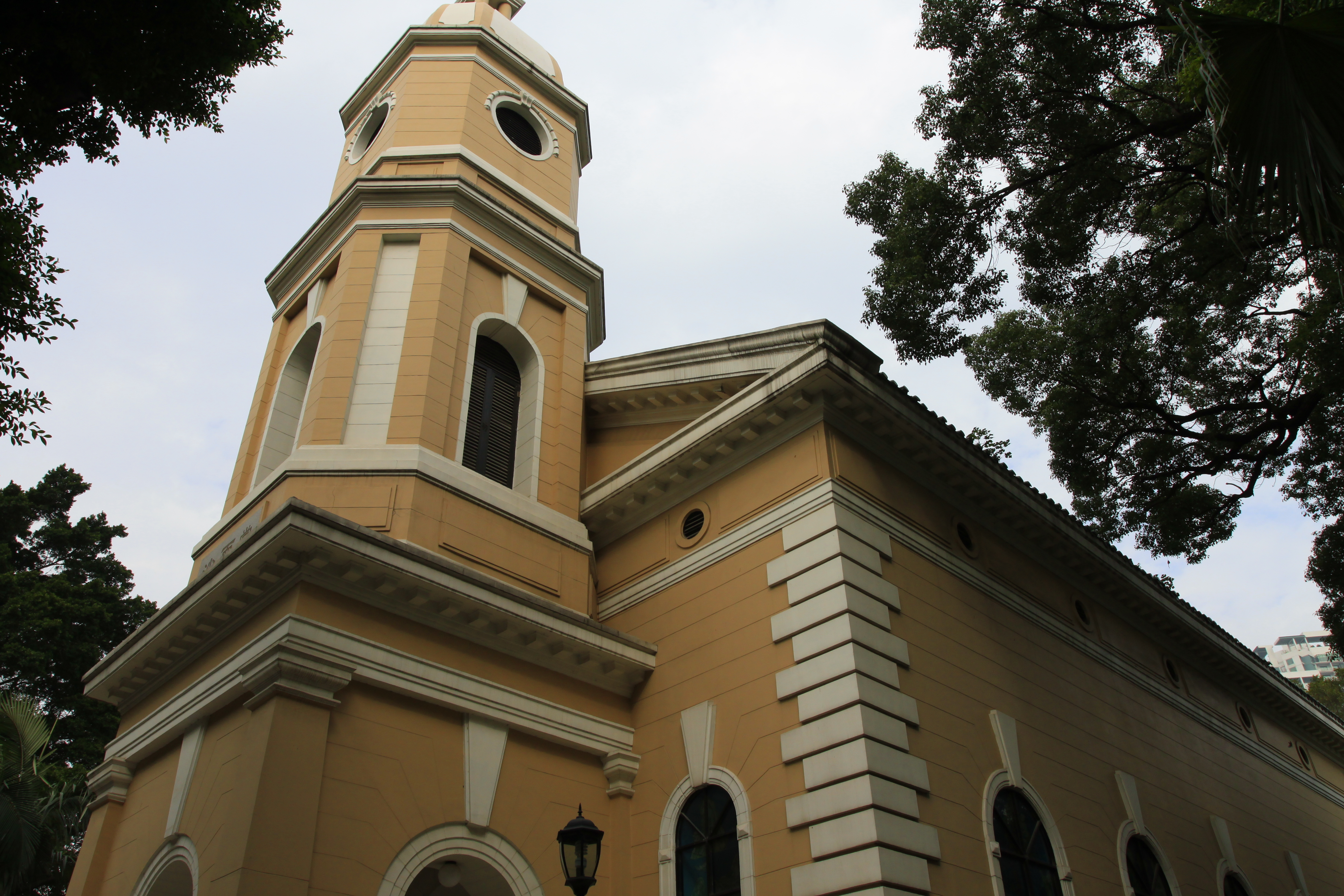 Shamian Island，in Guangzhou, Guangdong, China.